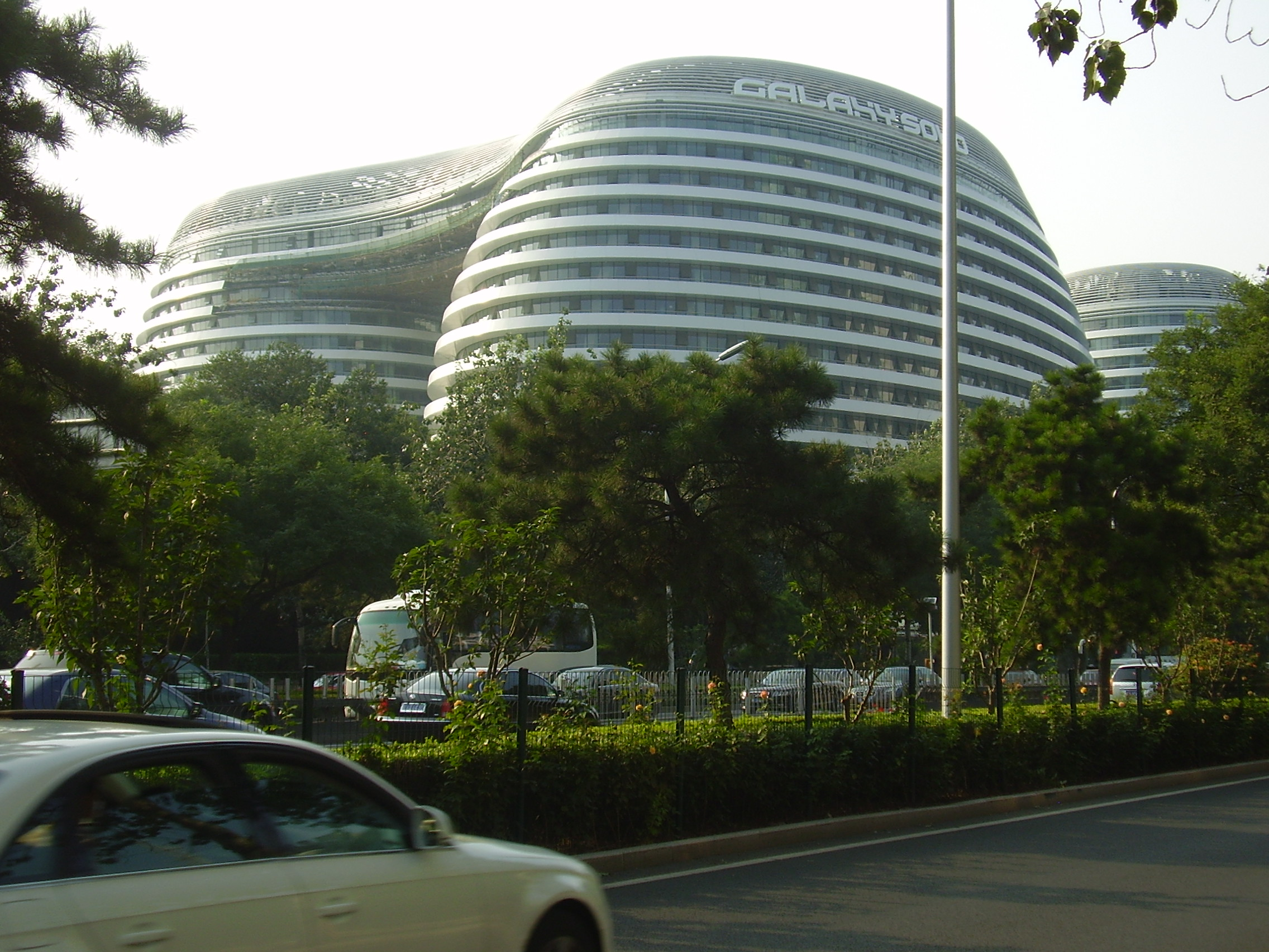 Galaxy SOHO (S: 银河SOHO, T:銀河SOHO, P: Yínhé SOHO) - East 2nd Ring Road, Beijing